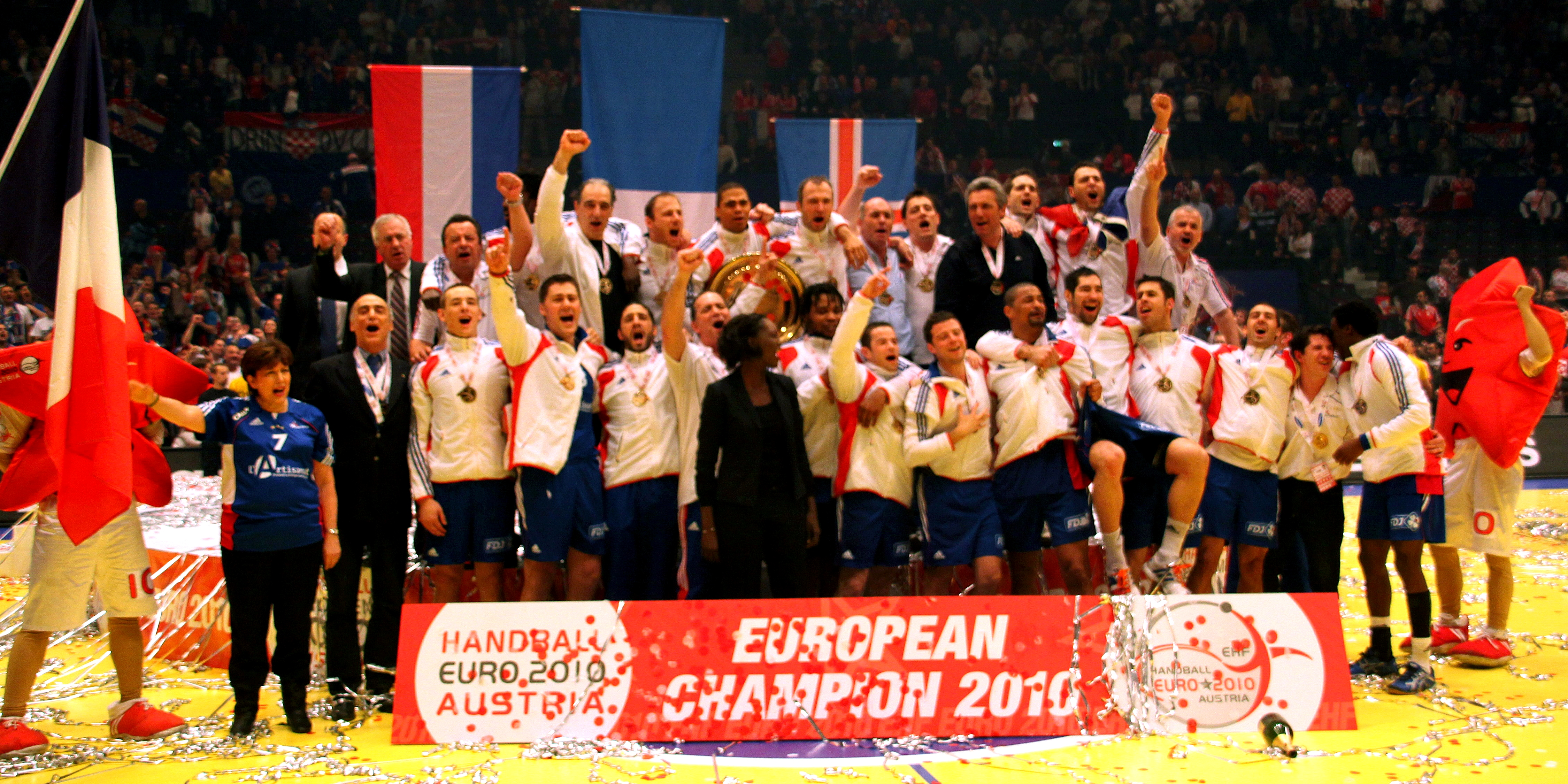 The players of the France national handball team are jubilant about the first place in the 2010 European Men's Handball Championship